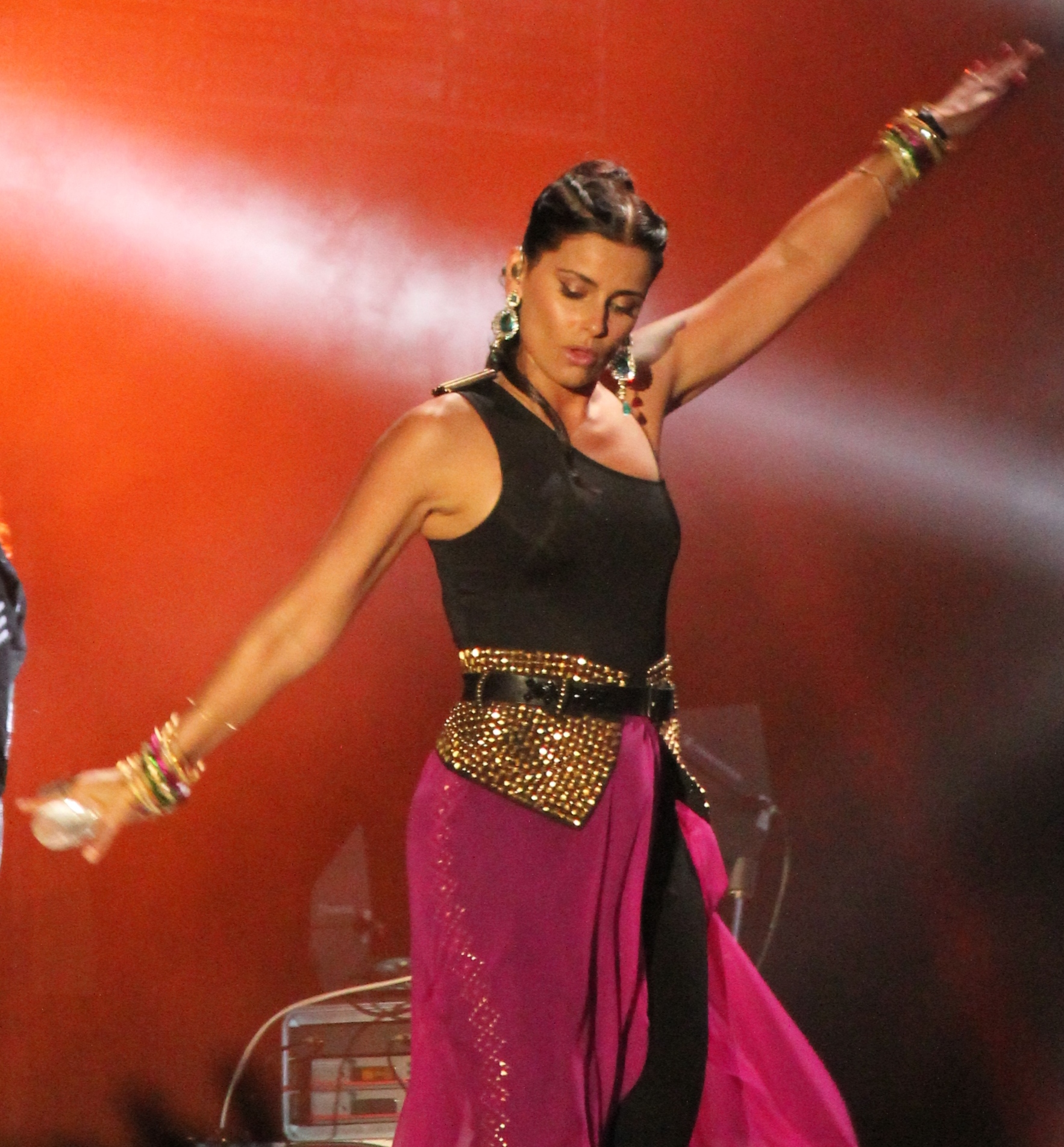 Nelly Furtado at the MTV Isle Of Malta in June 2012.